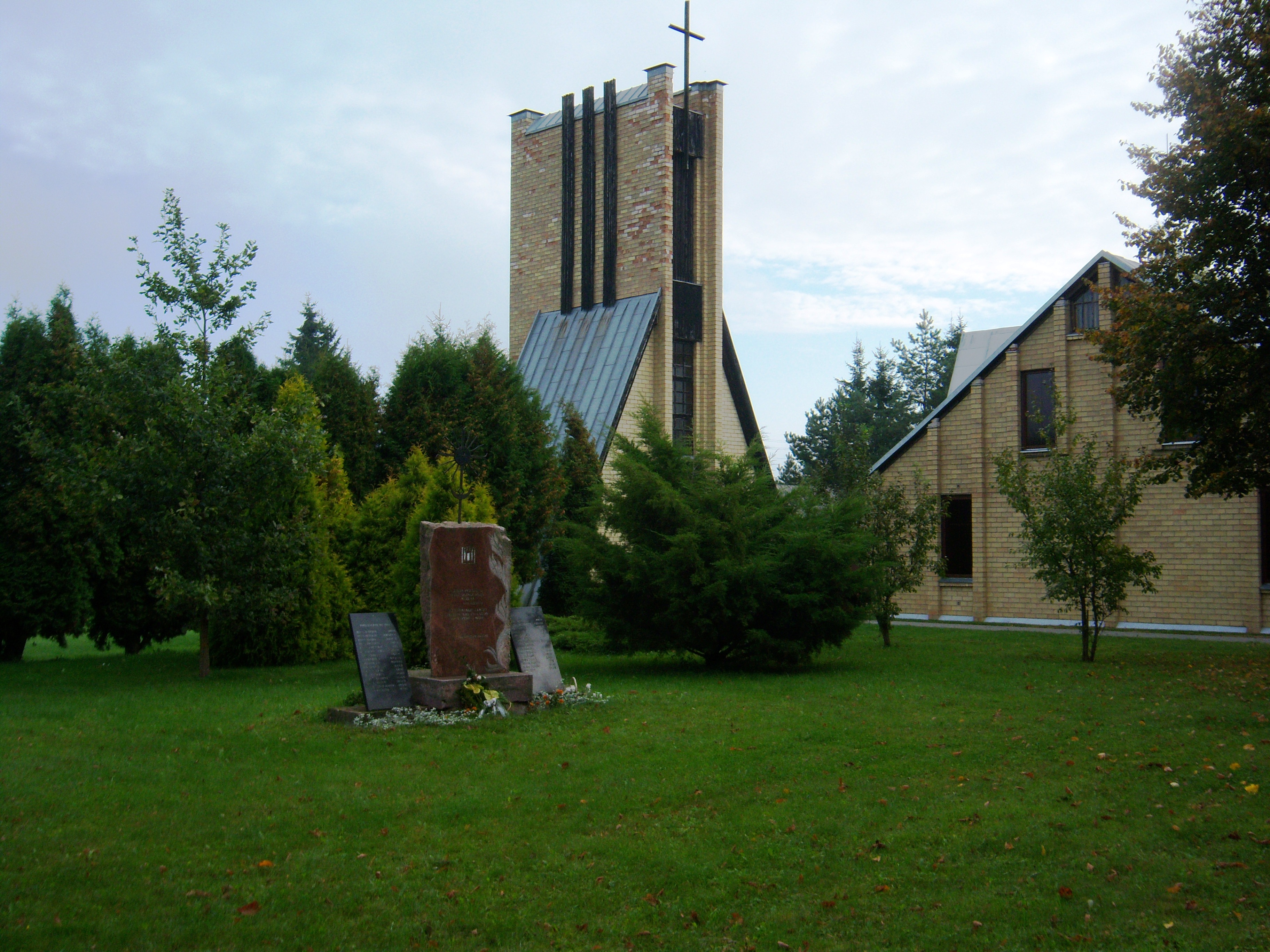 Monument to partisans, Keturvalakiai, Vilkaviškis District, Lithuania